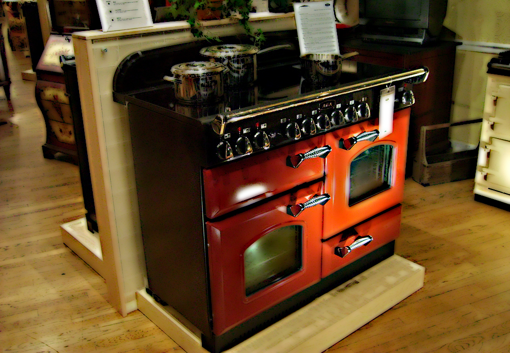 Stylized photograph of a modern AGA cooker taken by Flickr user dickuhne